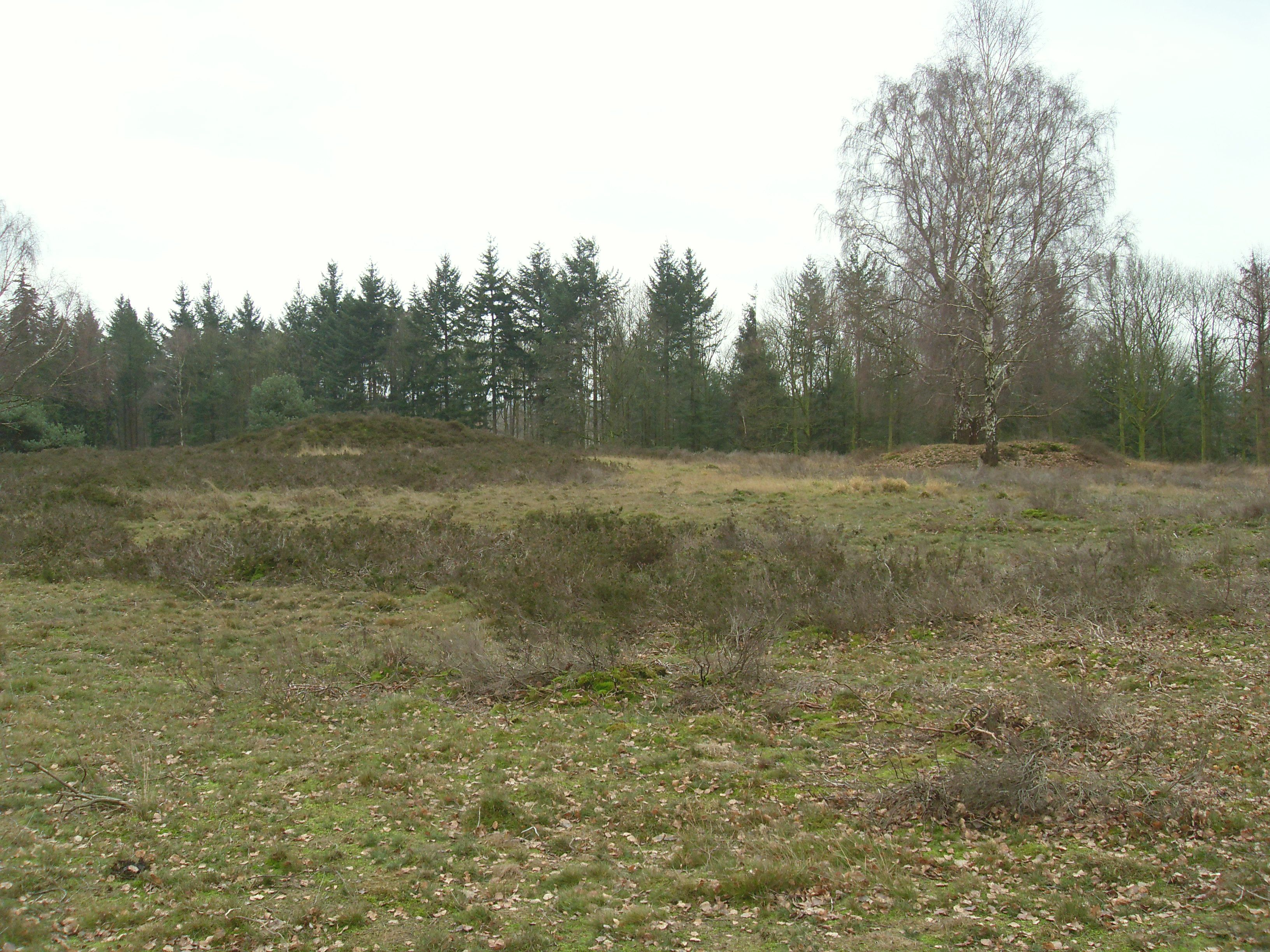 Nature reserve Hügelgräberheide close to Kirchlinteln, Verden, Lower Saxony, Germany